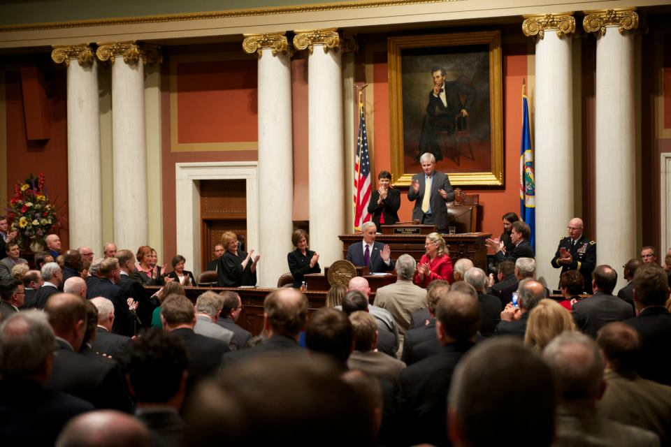 Several leaders of the Minnesota National Guard support Governor Mark Dayton's 2013 State of the State address at the Capitol Feb 6. photo by Army Staff Sgt. Ben Houtkooper. Public Domain